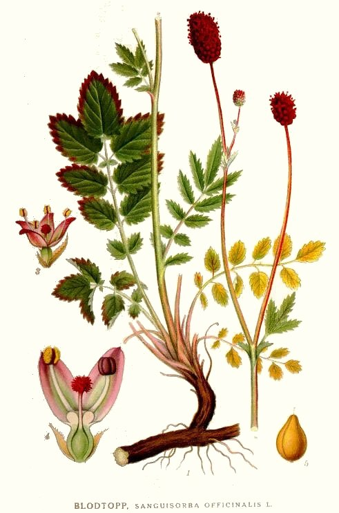 Sanguisorba officinalis L. Original Description Blodtopp, Sanguisorba officinalis L.